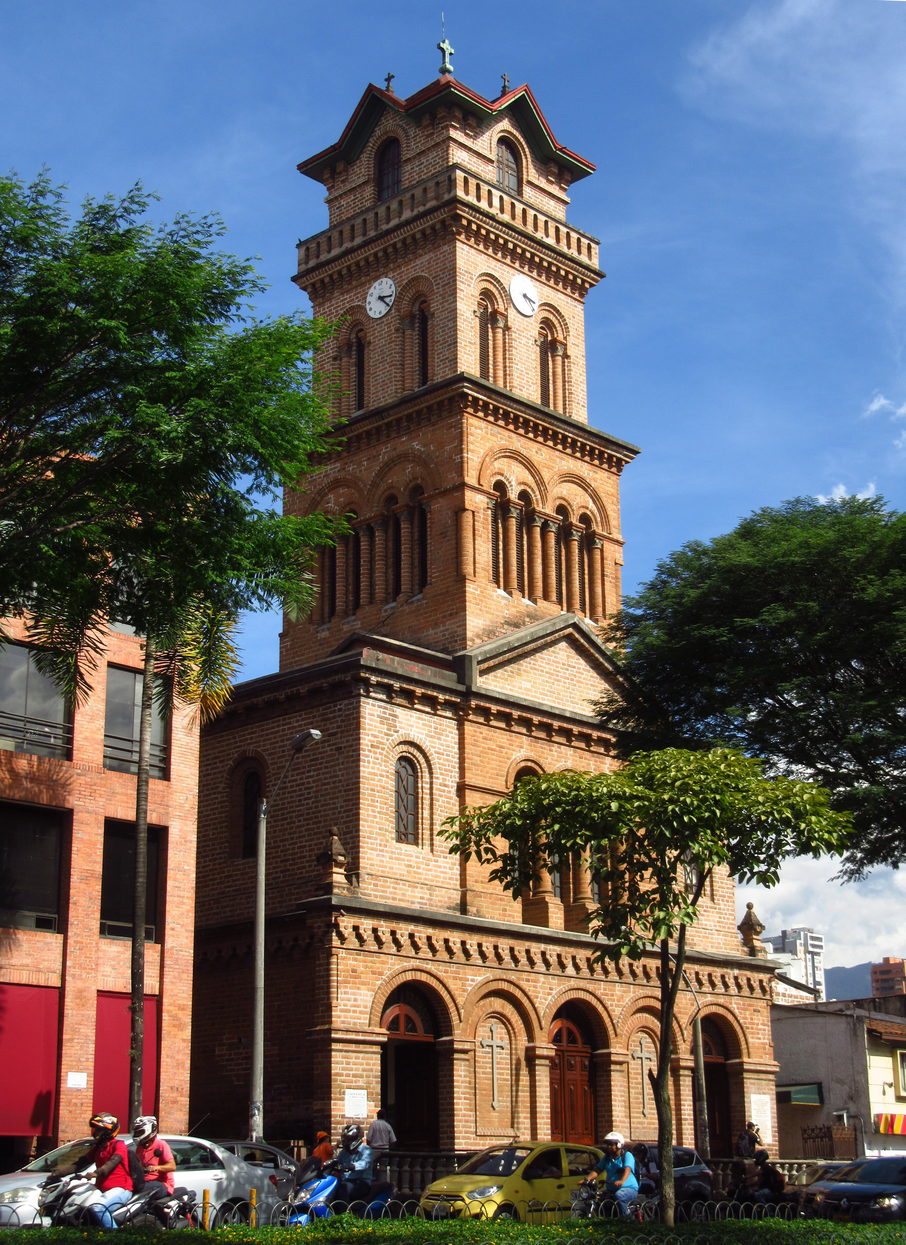 Medellín